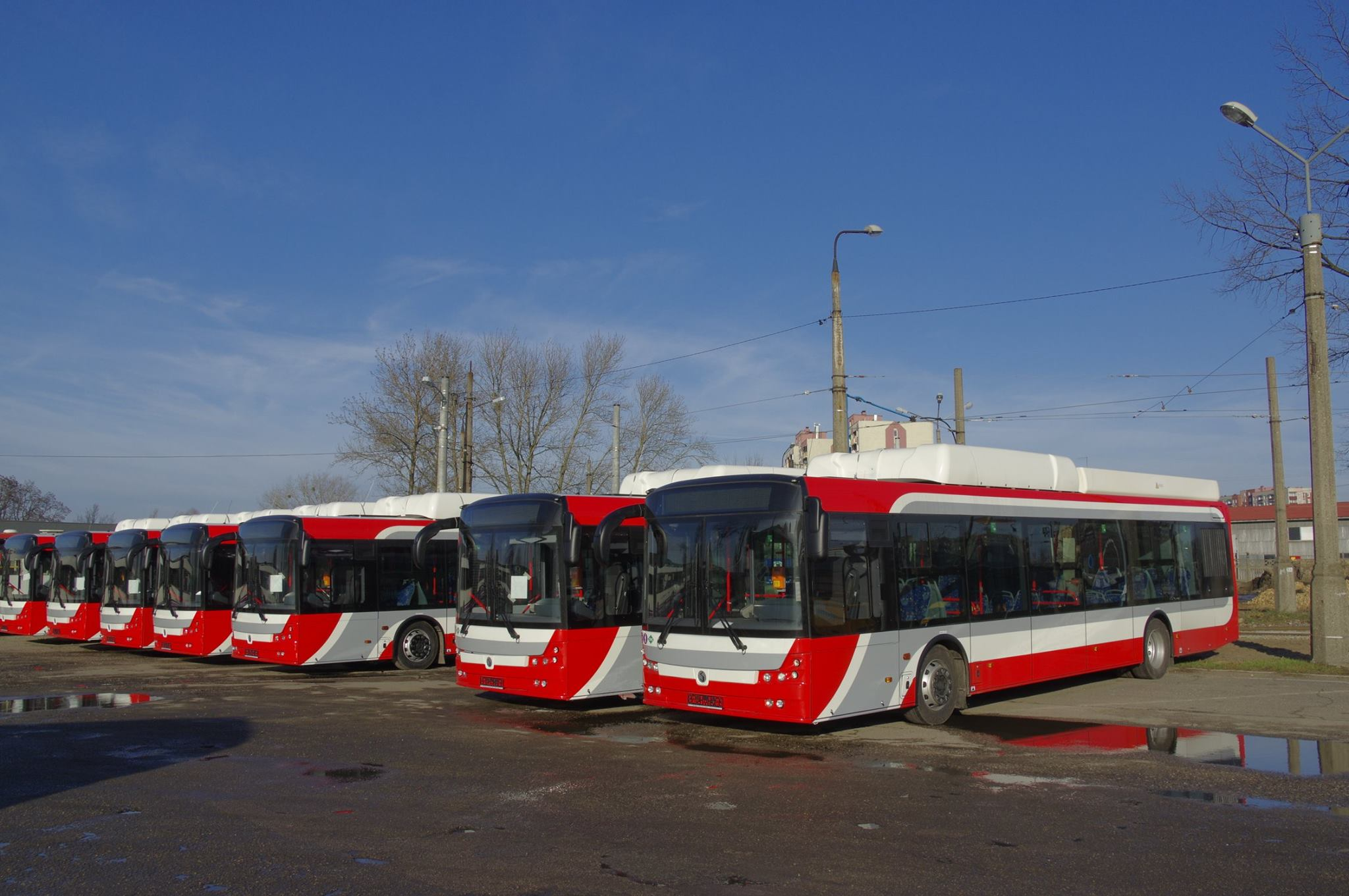 Solbus Solcity 12 CNG Hybrid, Częstochowa